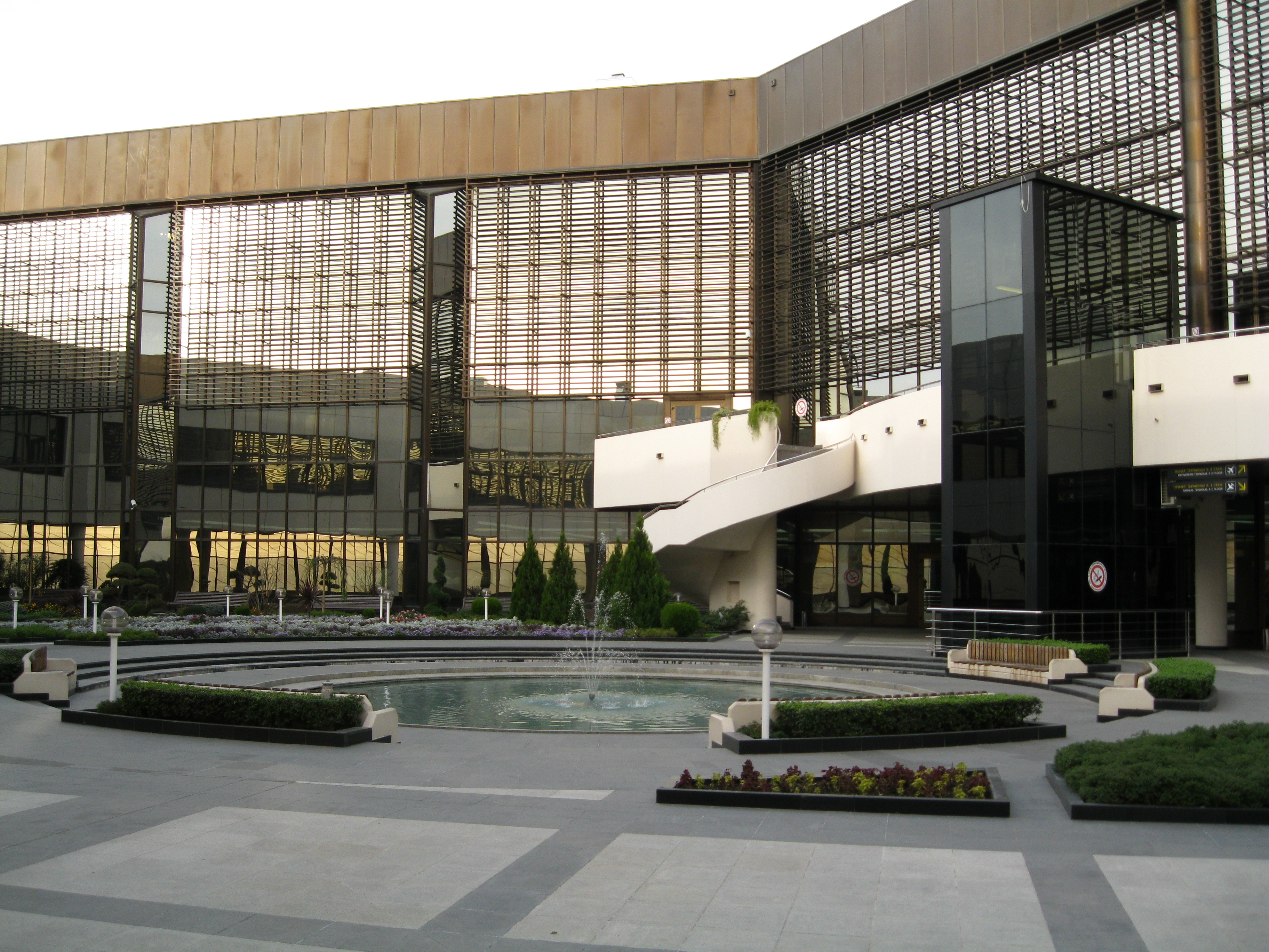 Sochi International Airport. Inner Italian yard